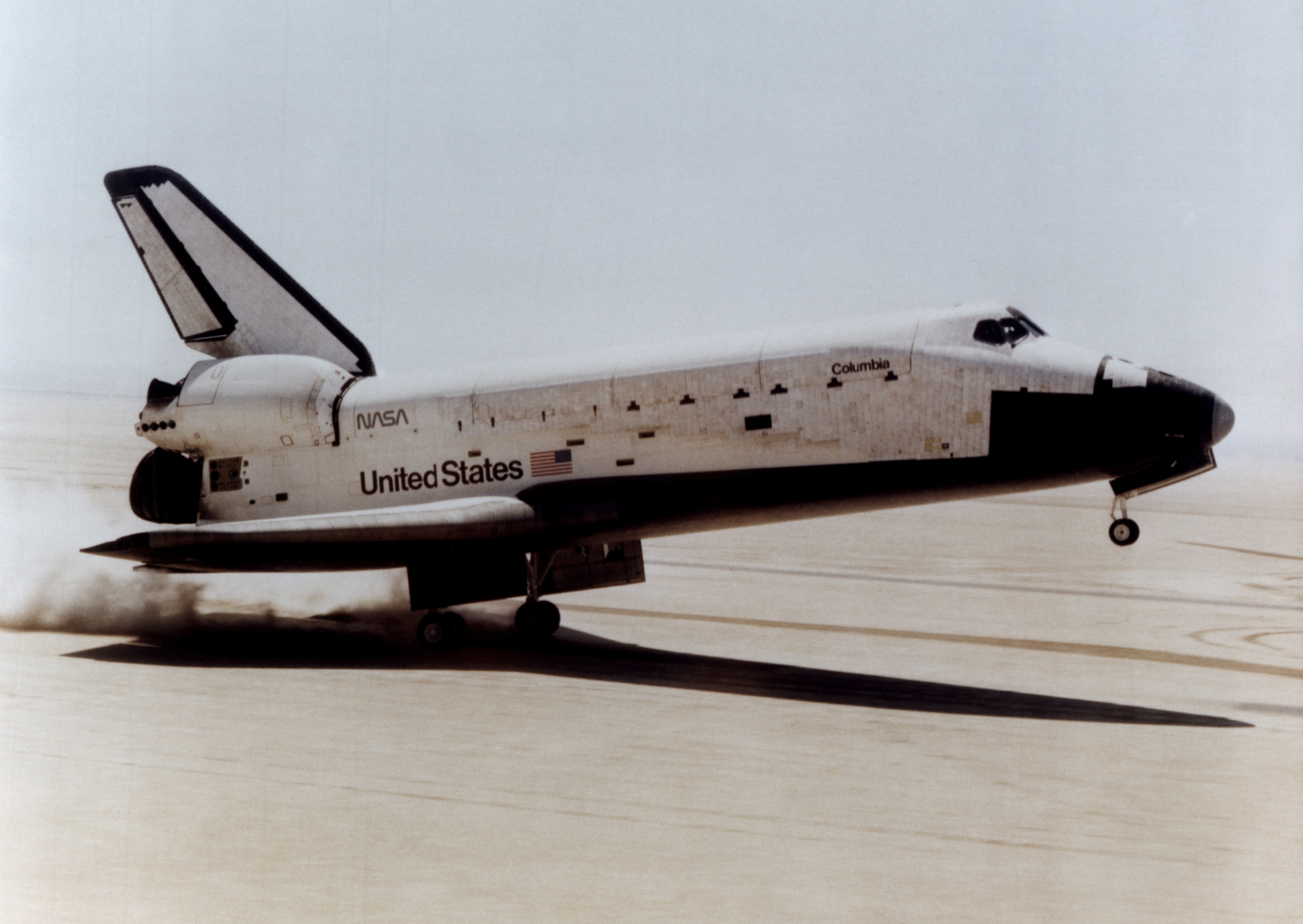 Space Shuttle Columbia landing on Rogers dry lake bed at Edwards Air Force Base, California after the completion of STS-1, the first shuttle mission. Reentry of the shuttle occurs above the speed of sound and causes a sonic boom which can be heard over the entire Antelope Valley.